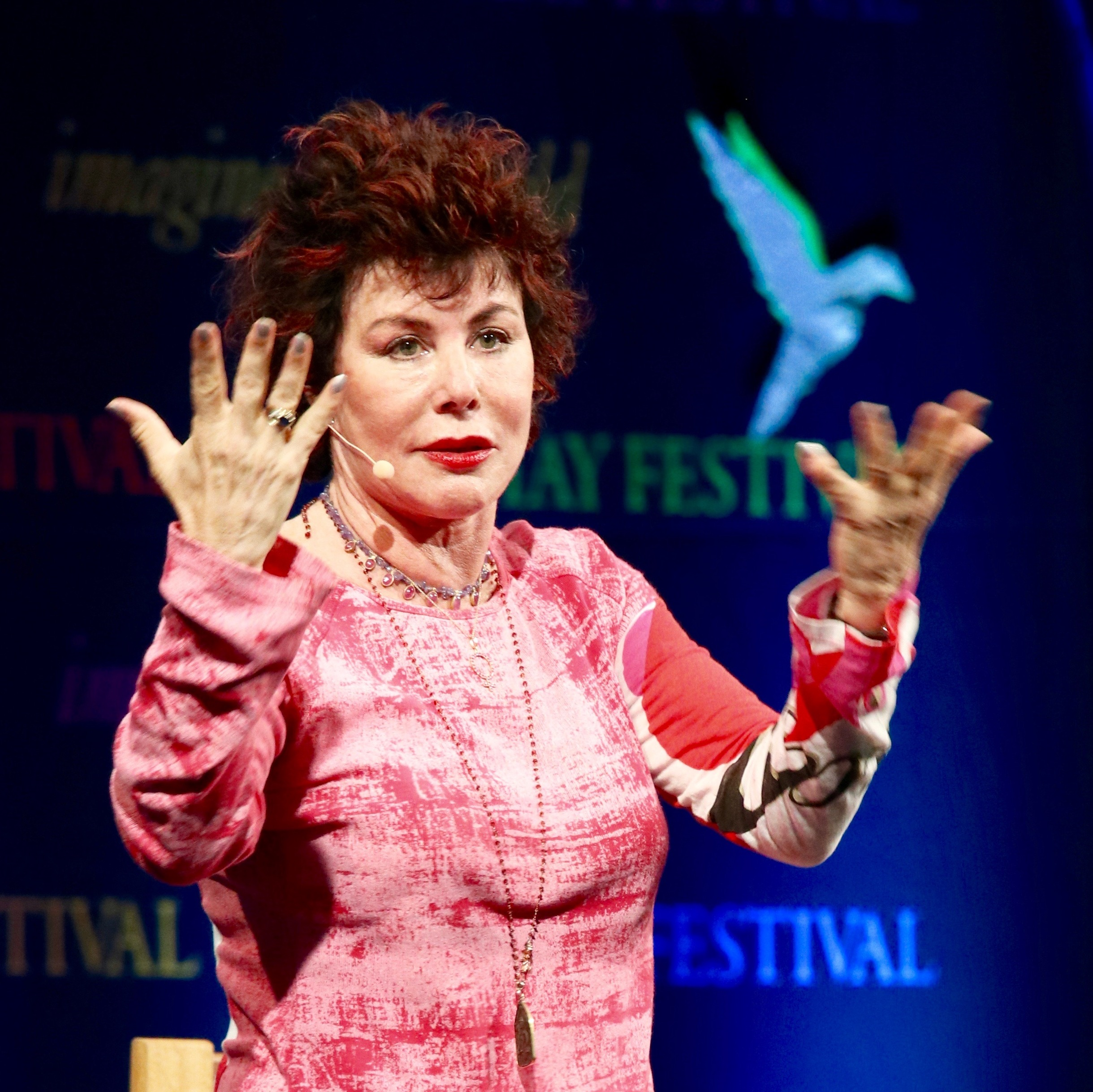 Hay Festival 2016 - Ruby Wax